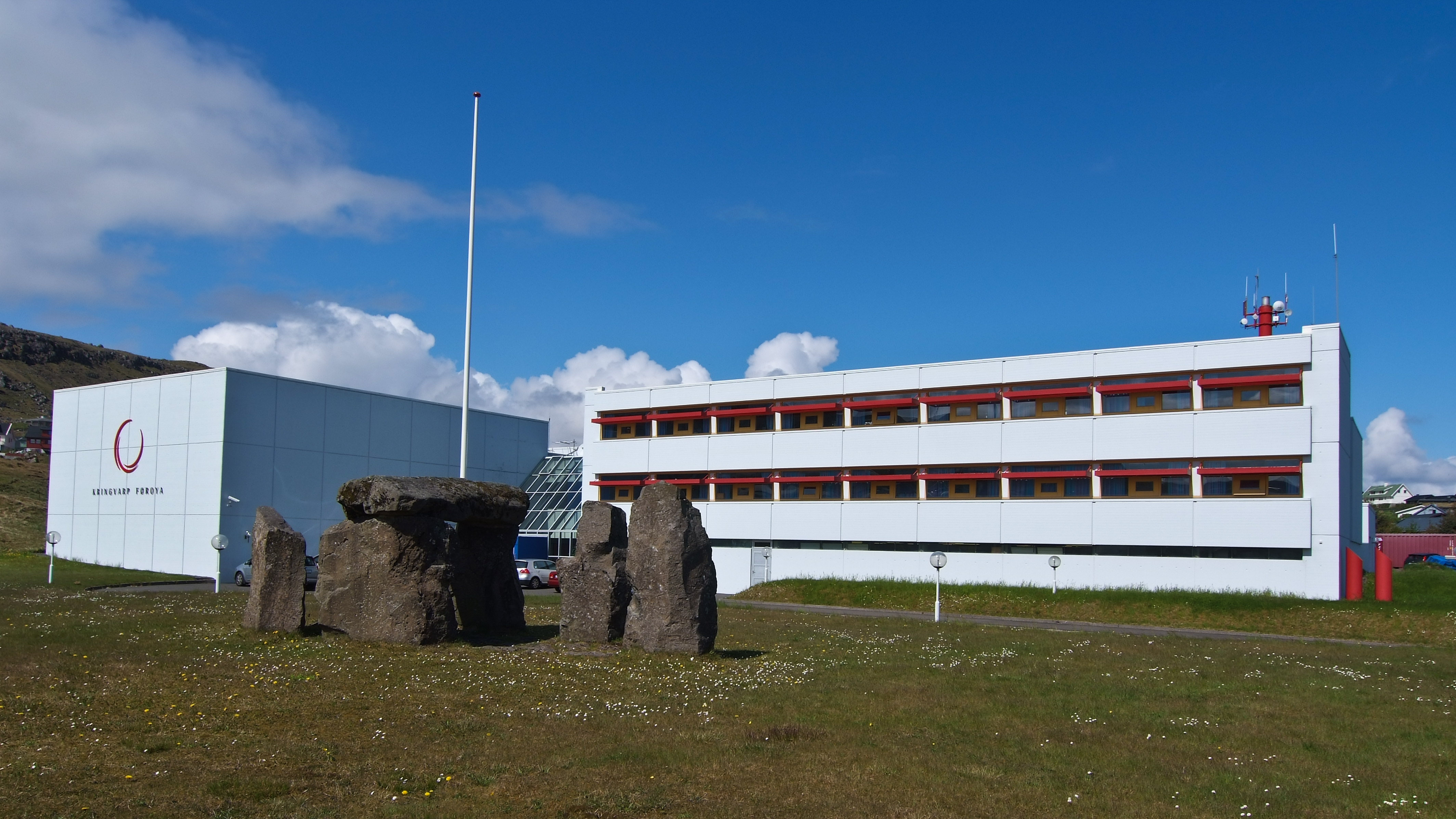 Faroese Broadcasting Company